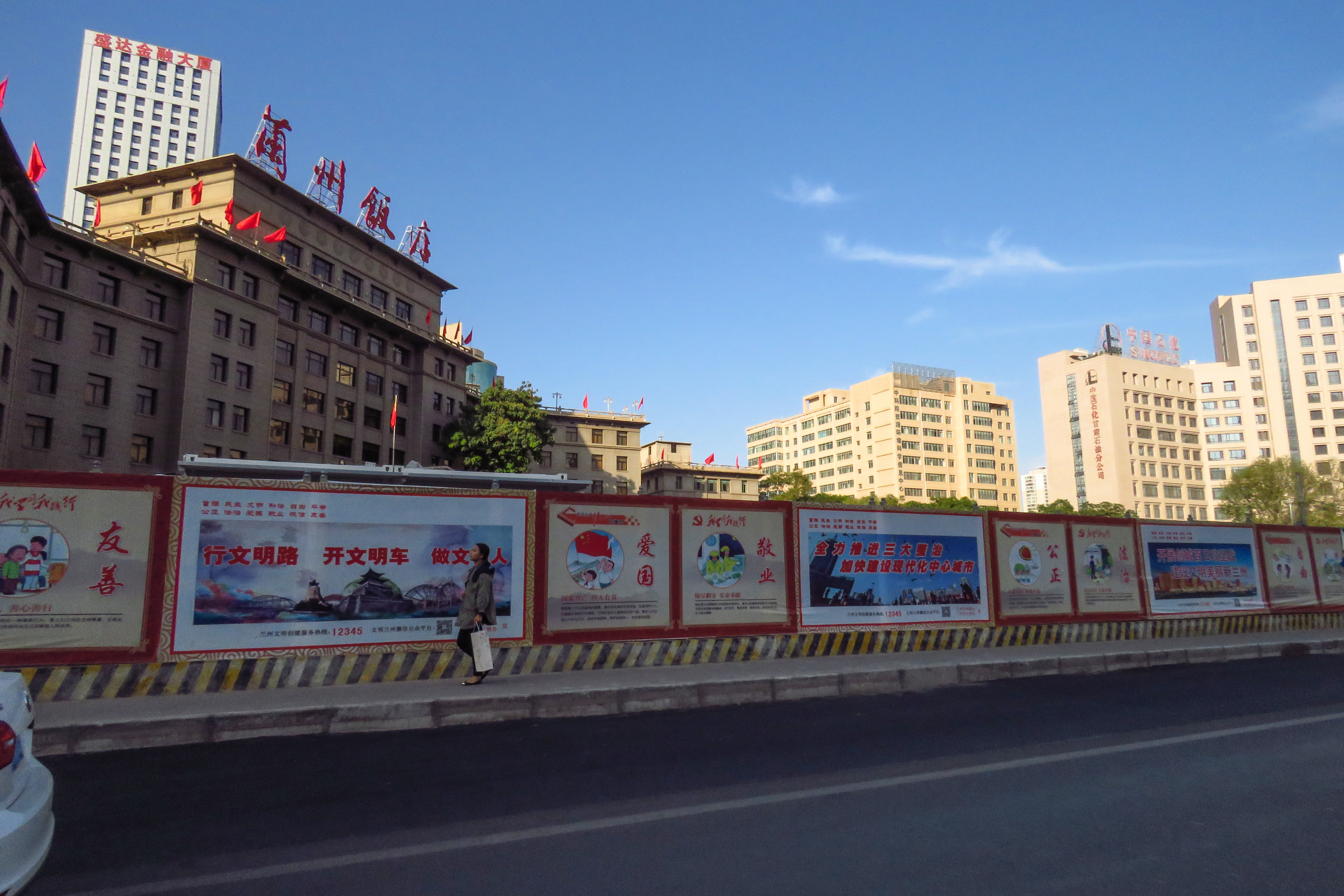 At the intersection of Tianshui Rd and Donggang Rd... possibly Lanzhou University Station (according to 2016 list, formerly Panxuanlu Station.